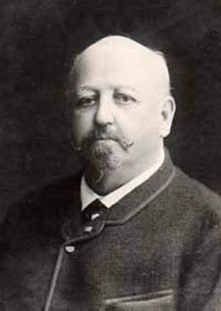 Nikolay Egorovich Sverchkov (1817-1898), famous Russian painter, master of the genre and animalistic painting.